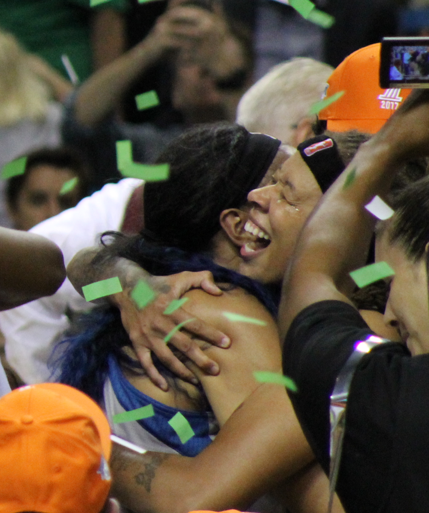 Seimone Augustus (smiling) celebrates after the Minnesota Lynx win the 2017 WNBA Finals